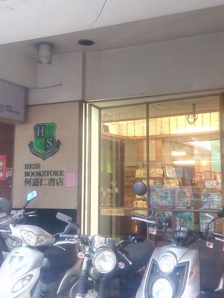 Hess Bookstore in Sanchong District made by wiki user cjackh